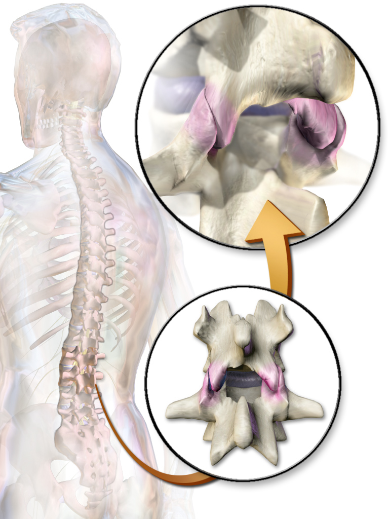 Facet Joints. See a full animation of this medical topic.